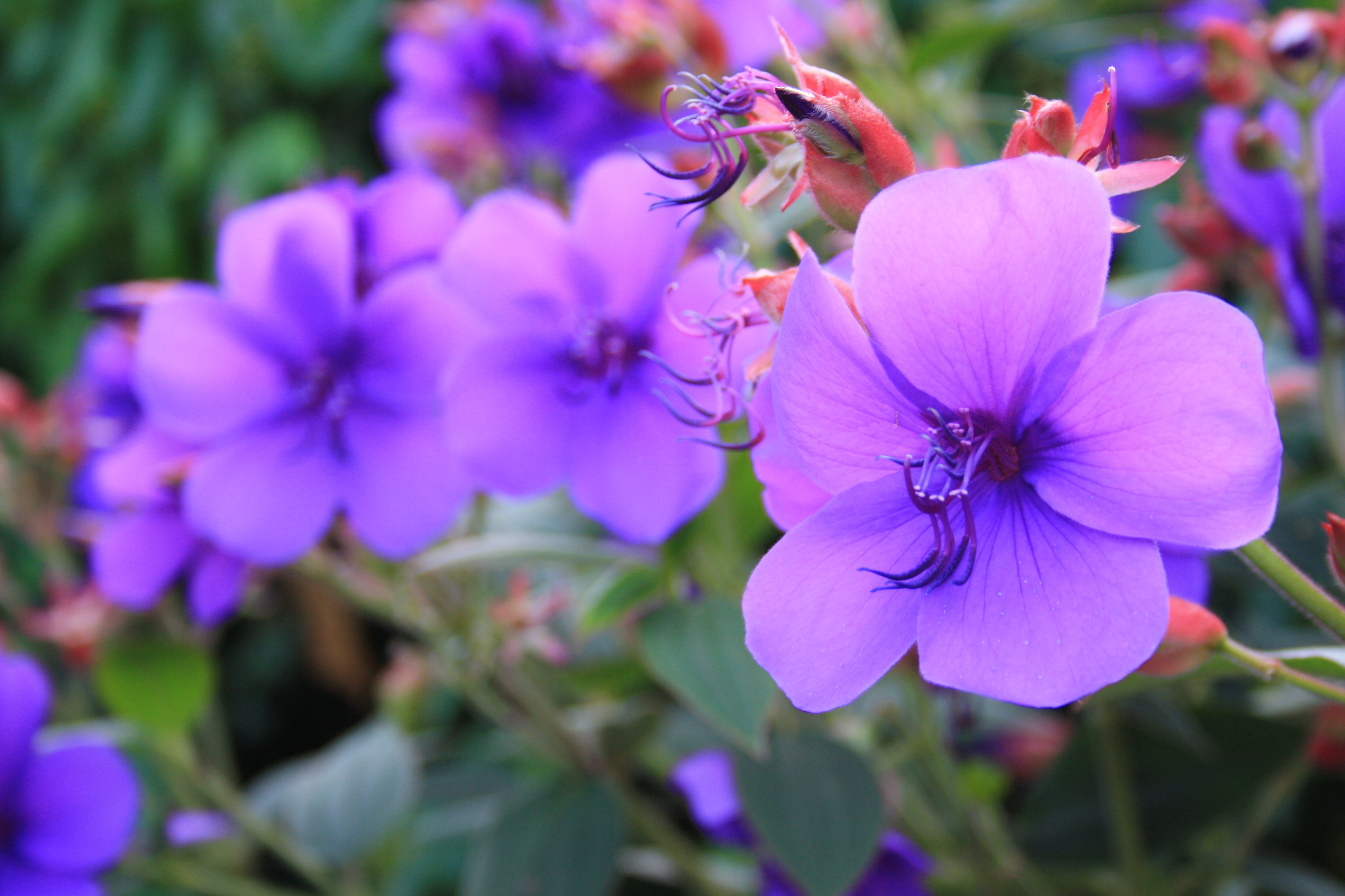 Botanical garden of the University of Zürich in Zürich-Weinegg quarter